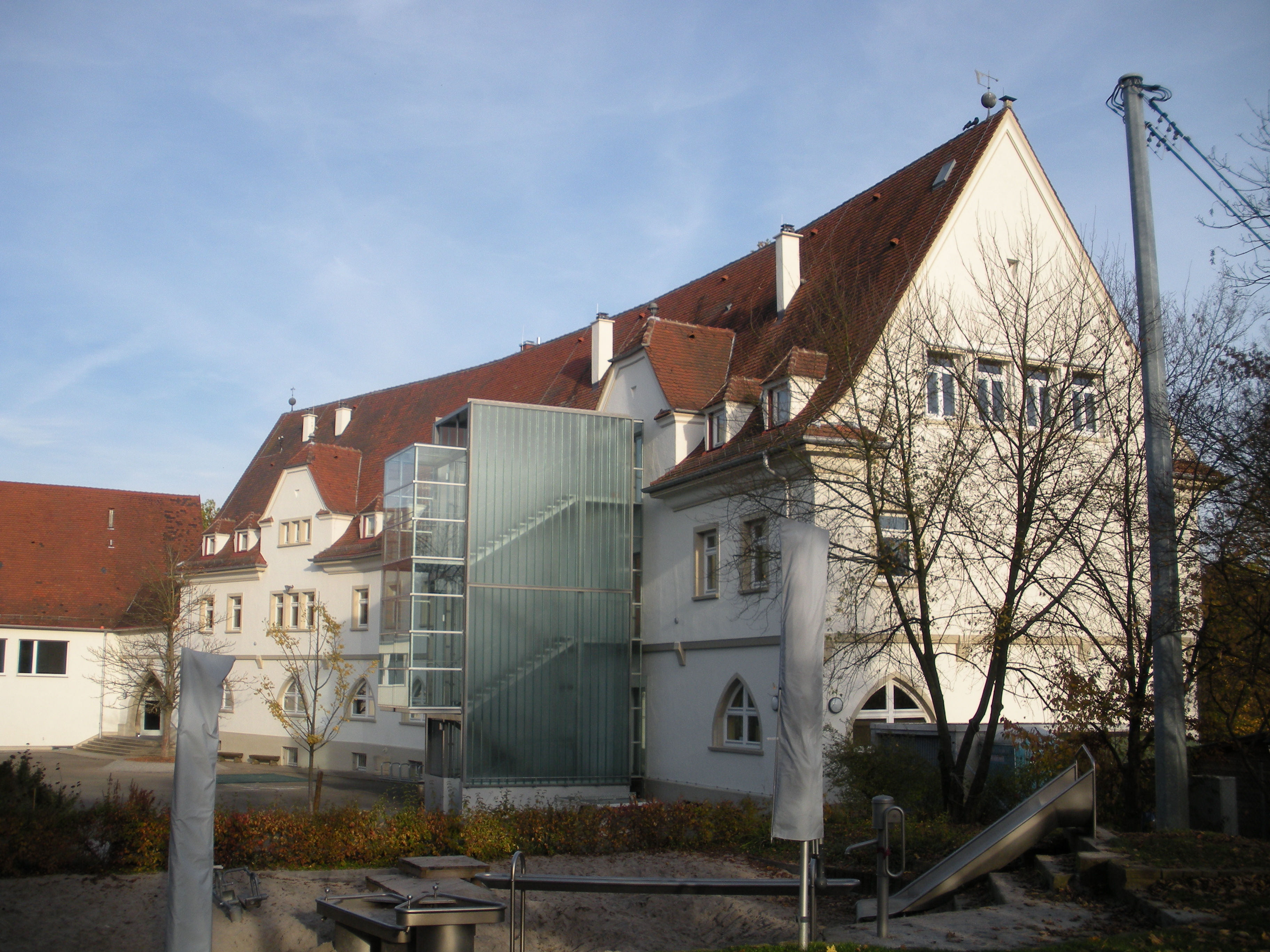 Primary School in Stuttgart-Kaltental